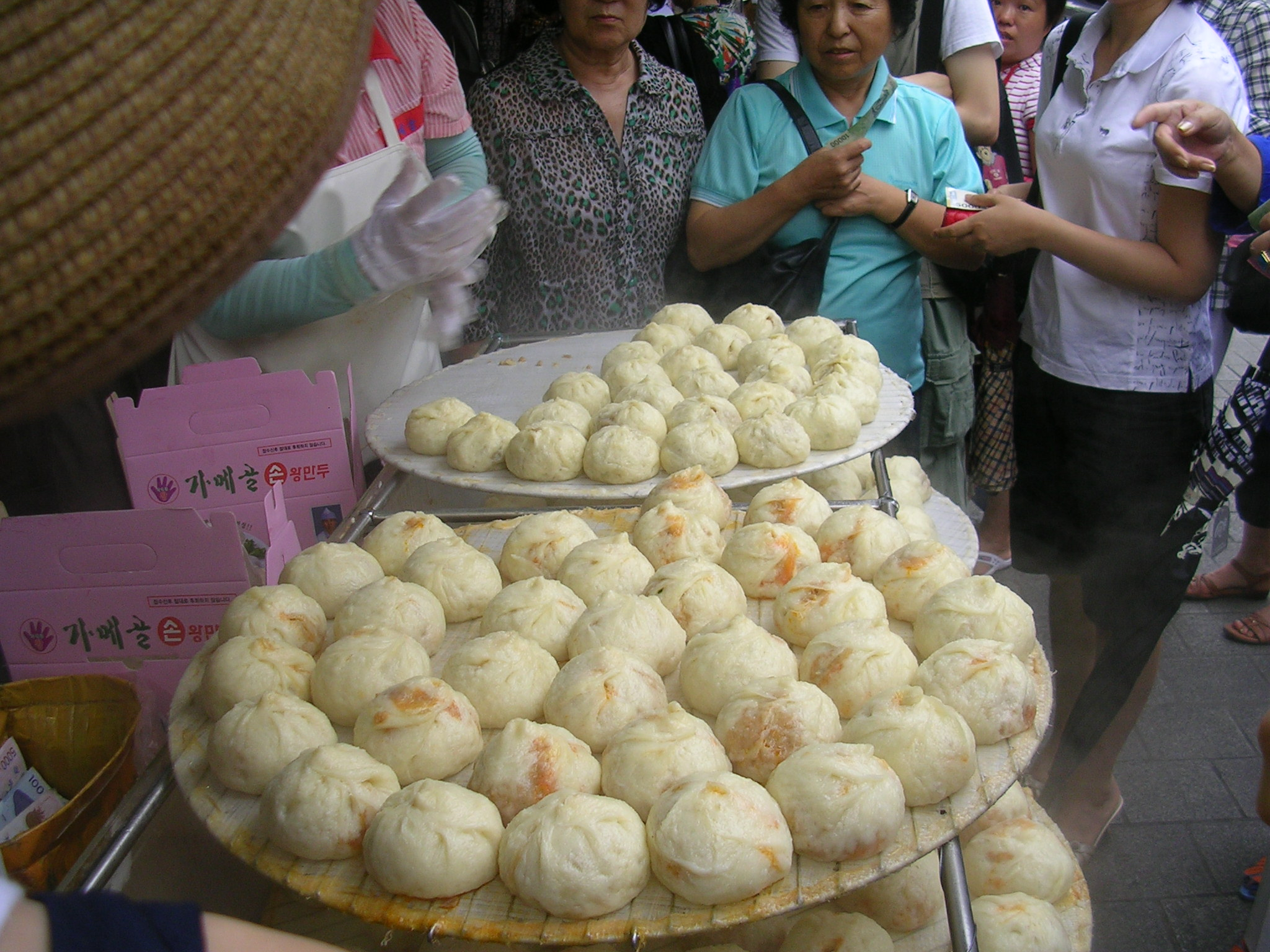 Hot mandu (dumpling) being sold in a South Korean market.